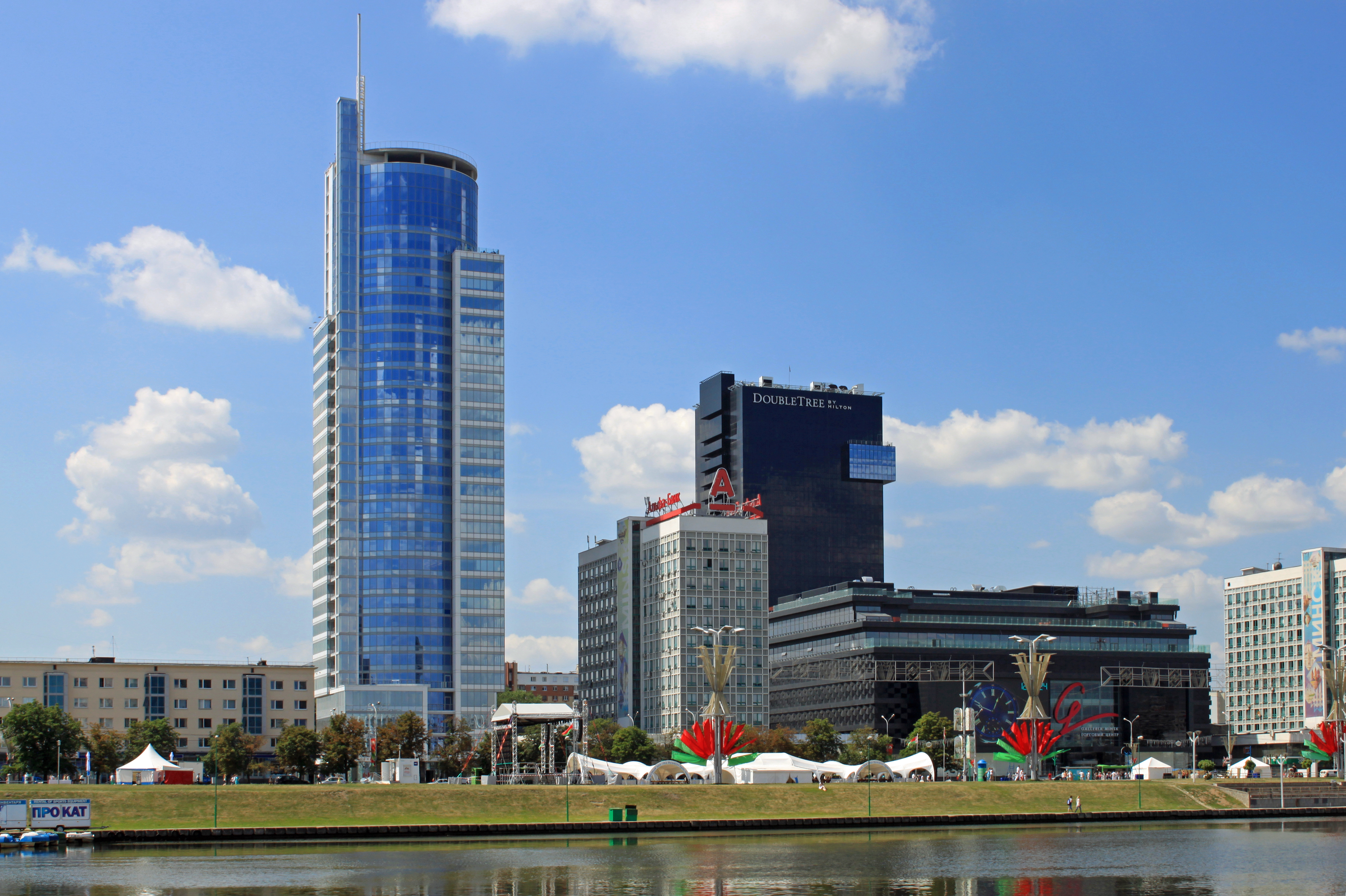 Minsk, Pieramožcaŭ Avenue in June 30, 2016